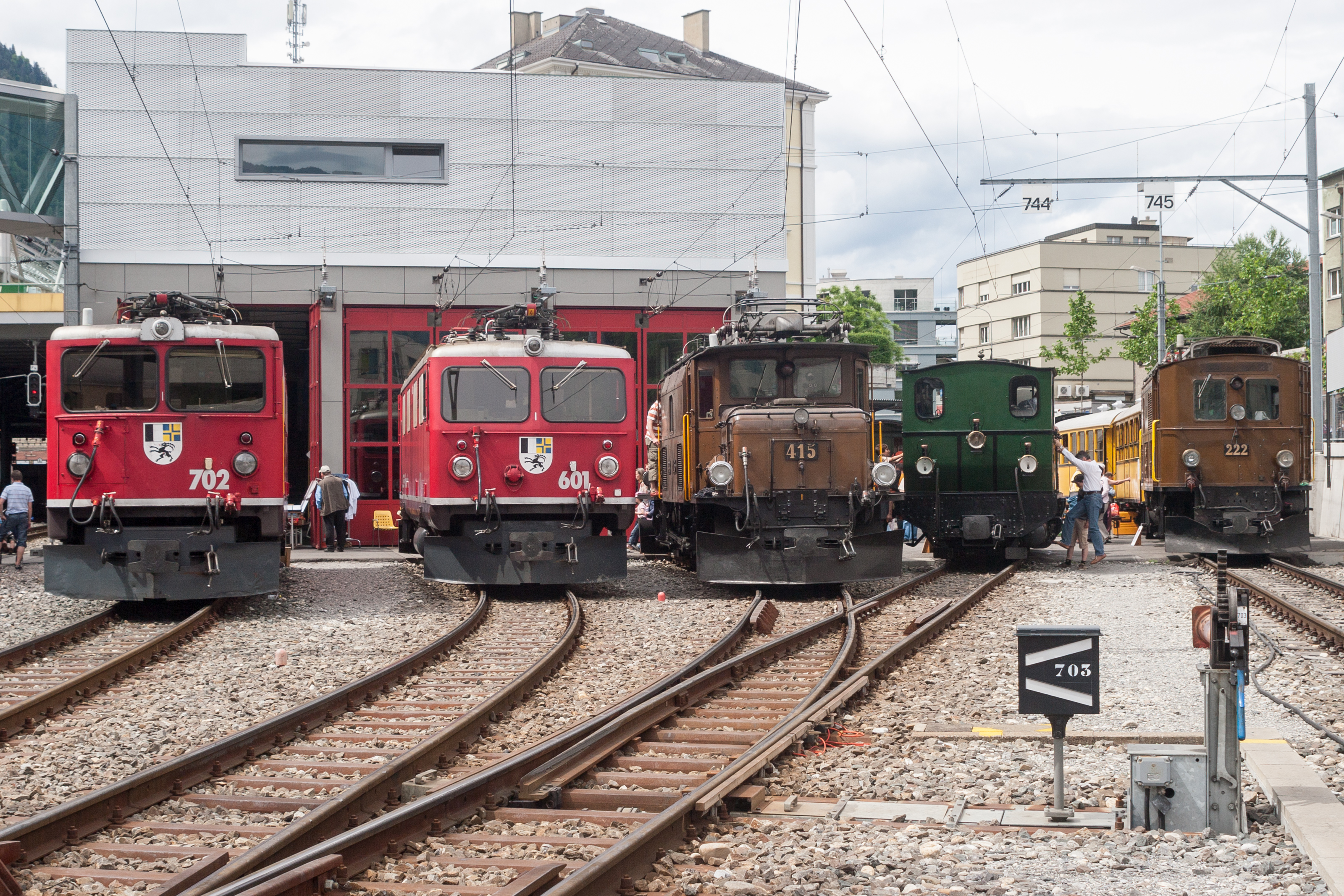 RhB Locomotive line-up at Chur railway station; Ge 6/6 II, Ge 4/4 I, Ge 6/6 I, G 3/4 "Rhaetia", Ge 2/4.